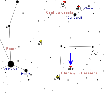 Map of M53